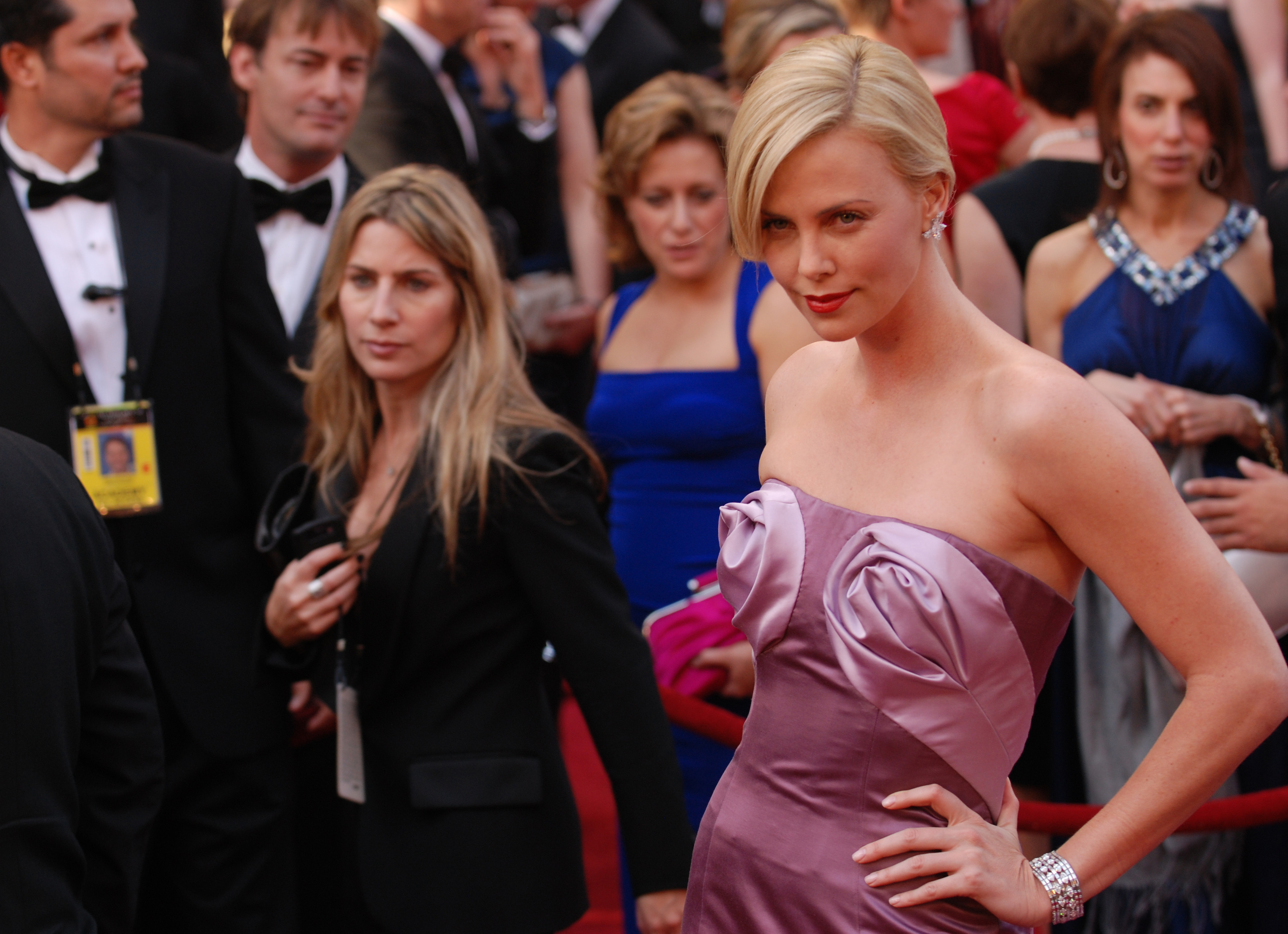 Charlize Theron strikes a red-carpet pose at the 82nd Academy Awards, March 7, in Hollywood, Calif.